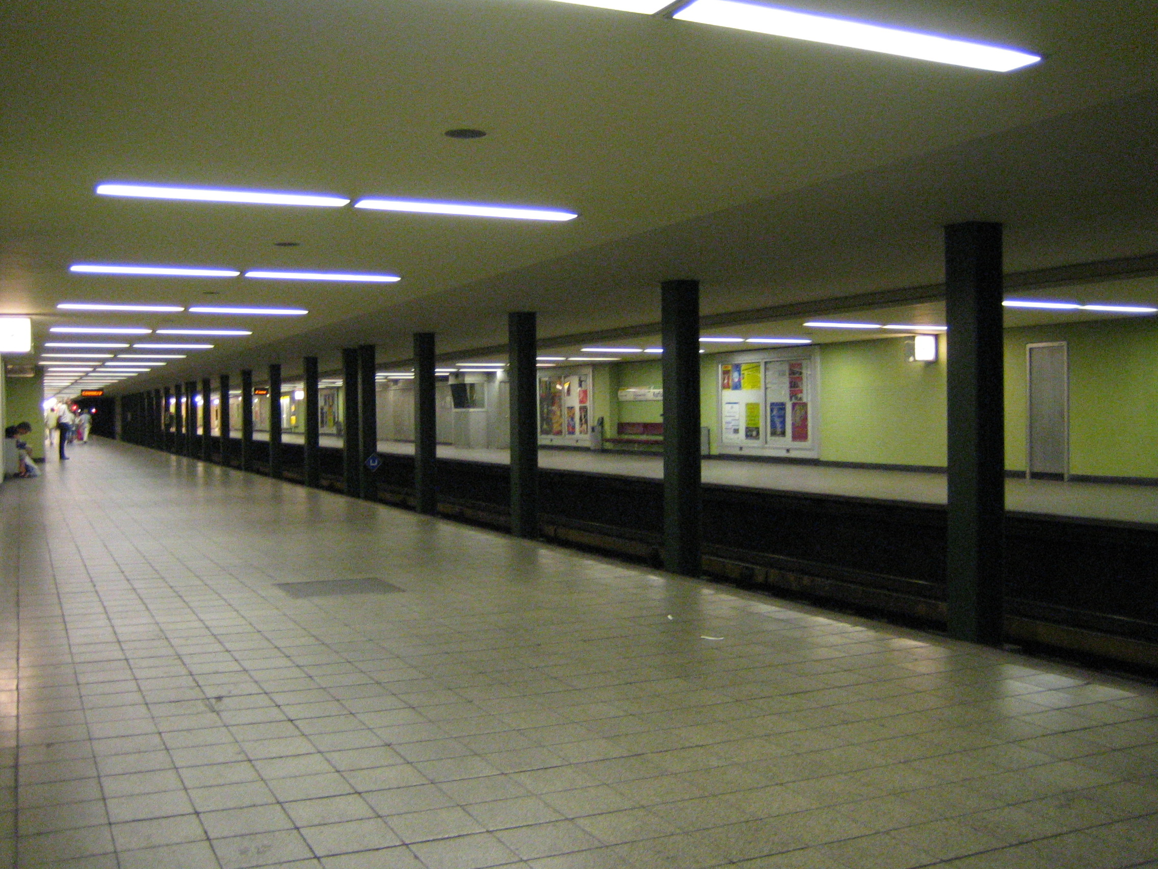 Platforms of Berlin U-Bahn's U1 line in Kurfürstendamm station